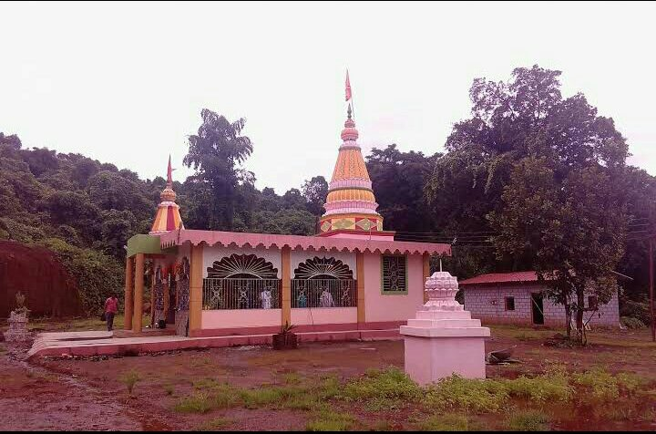 Shree Chandikai Kalkai Temple, situated in jungle nearby waghivare village